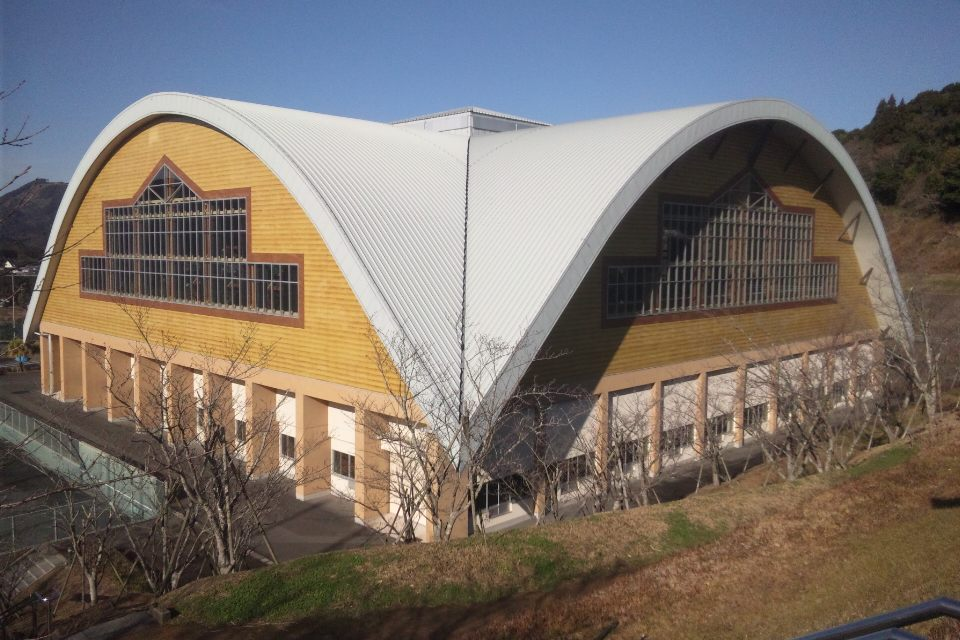 Nango Kuroshio Dome, Miyazaki Japan